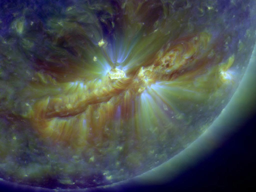 Fast-growing sunspot 1112 is crackling with solar flares. So far, none of the blasts has hurled a substantial CME, or coronal mass ejection, toward Earth. In addition, a vast filament of magnetism is cutting across the sun's southern hemisphere. This filament is so large it spans a distance greater than the separation of Earth and the moon. A bright 'hot spot' just north of the filament's midpoint is UV radiation from sunspot 1112. The proximity is no coincidence; the filament appears to be rooted in the sunspot below. If the sunspot flares, it could cause the entire structure to erupt. Thus far, none of the flares has destabilized the filament.